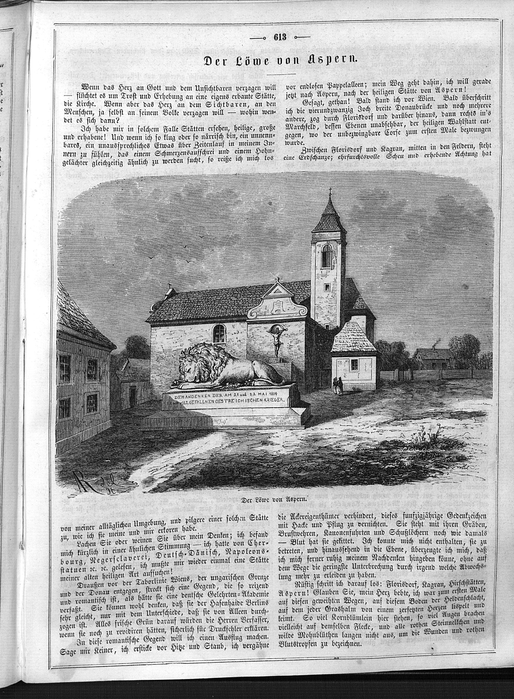 Page 613 from journal Die Gartenlaube Extracted image (if any): File:Die Gartenlaube (1858) b 613.jpg - hi res, ~2.5 MB.